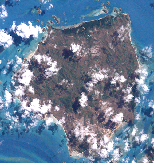 Badu Island, Western Torres Strait Islands, Queensland, Australia